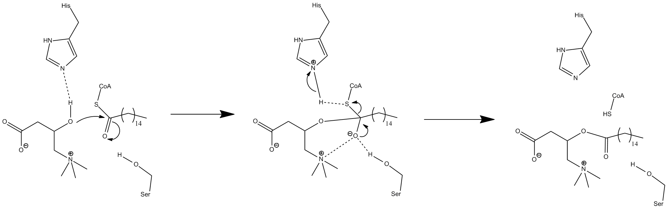 An arrow-pushing mechanism detailing the enzymatic catalytic mechanism that has been proposed for carnitine palmitoylstransferase I.